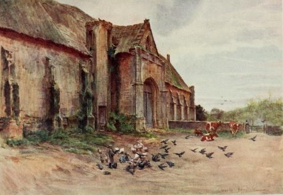 The Tithe Barn, Abbotsbury near Weymouth (watercolour - scene of the sheep-shearing in "Thomas Hardy's "Far from the madding crowd").